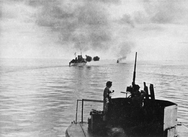 HMAS Australia and HMAS Arunta bombarding Cape Gloucester viewed from HMAS Shropshire